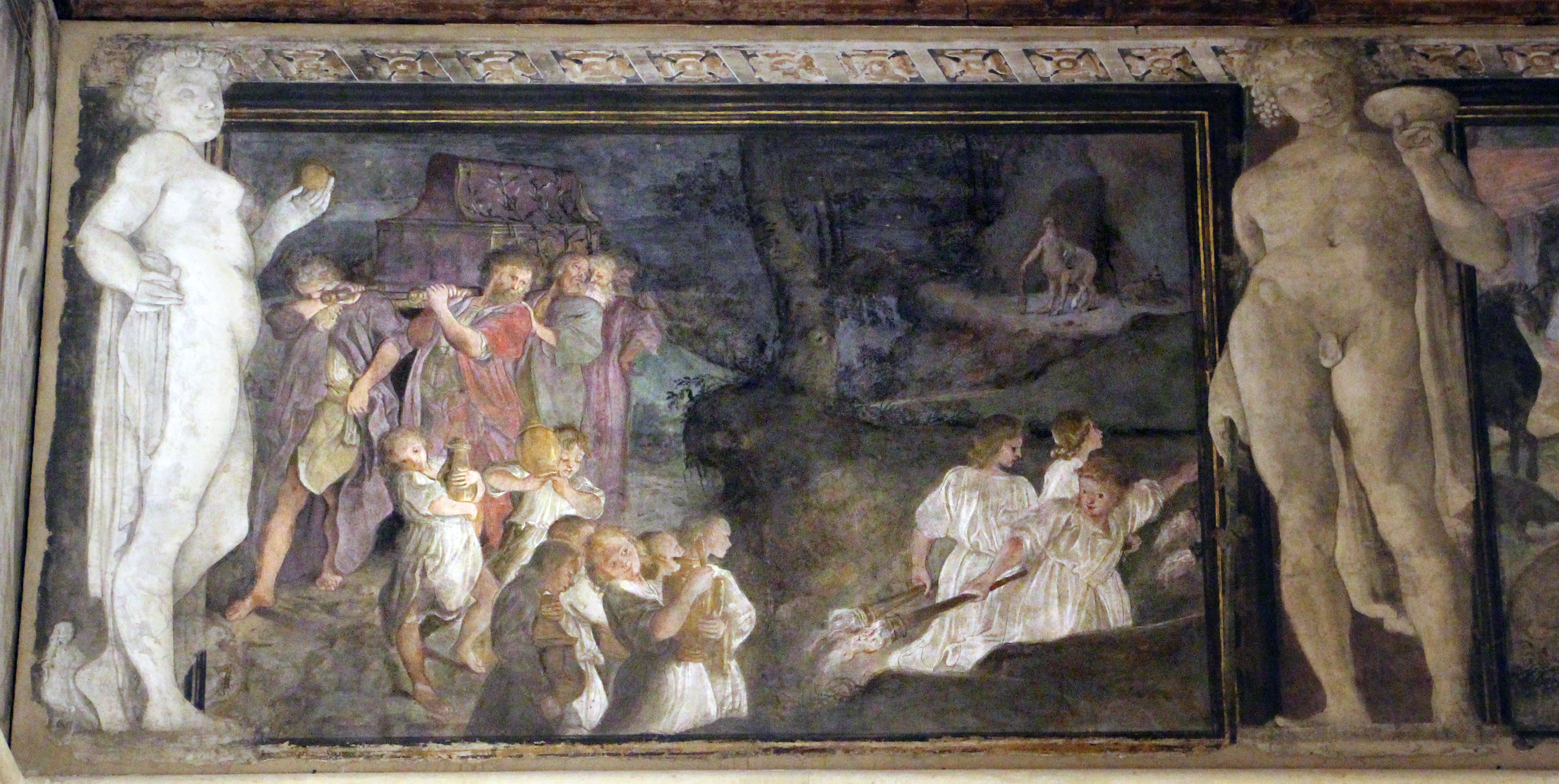 Frieze of Jason and Medea